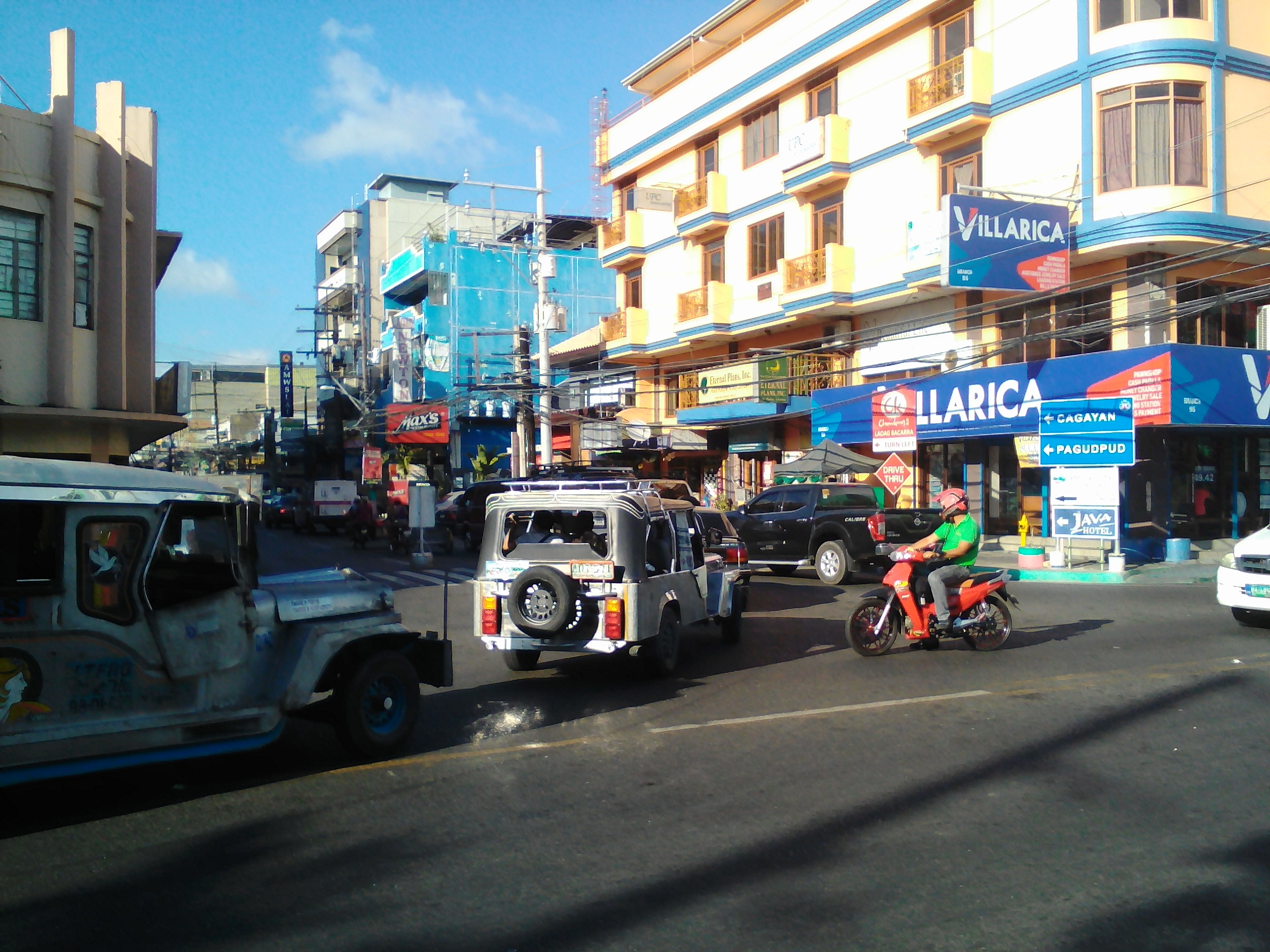 Northern Terminus of Pan-Philippine Highway, Laoag City, Ilocos Norte